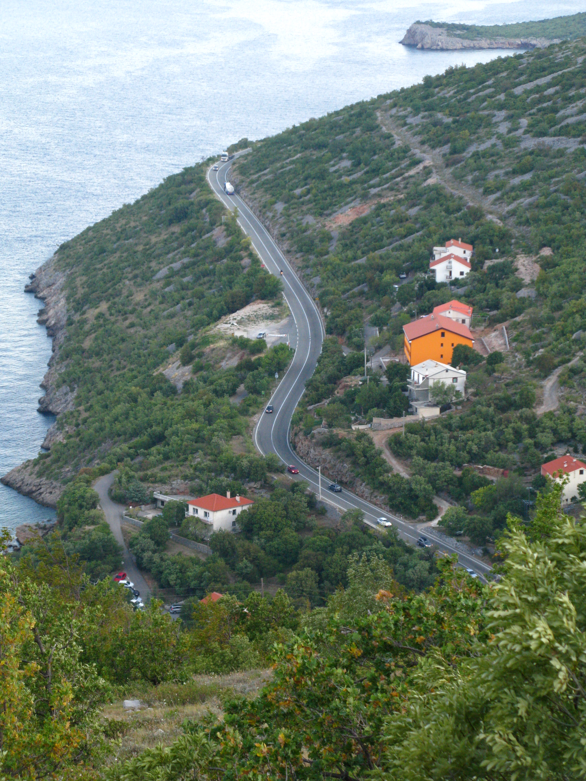 Bunica bay near Senj / Croatia / Adriatic Sea with Camping Bunica V and Camping Bunica I.